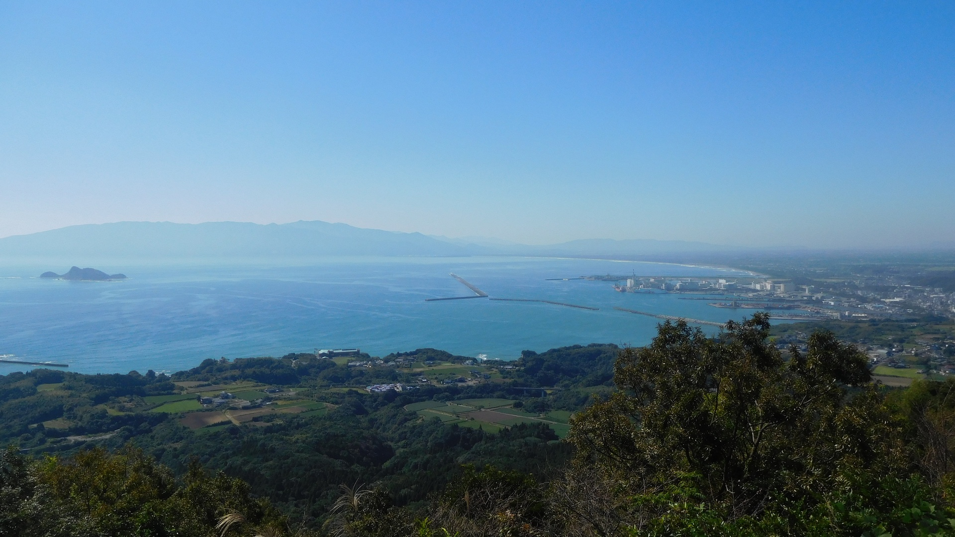 Shibushi Bay, seen from Mount Jin (Jingaku), Shibushi City, Kagoshima Prefecture, Japan.